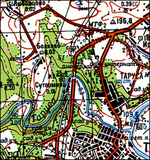 Участок карты, показывающий Сутормино в конце 1990-х годов. На карте изображена объездная дорога, проложенная по полю напротив деревни, и введеная в эксплуатацию в 1997 году.